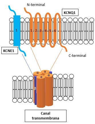 Potasium channel KCNE1-KCNQ1 voltage-dependent